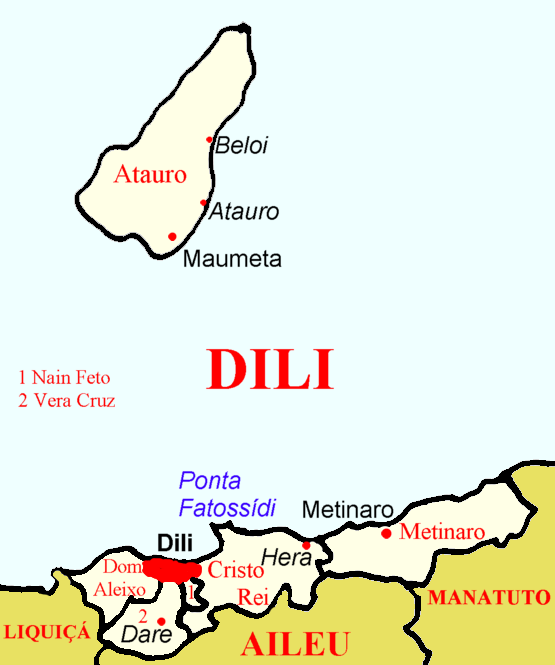 Subdistricts of District of Dili/East Timor.